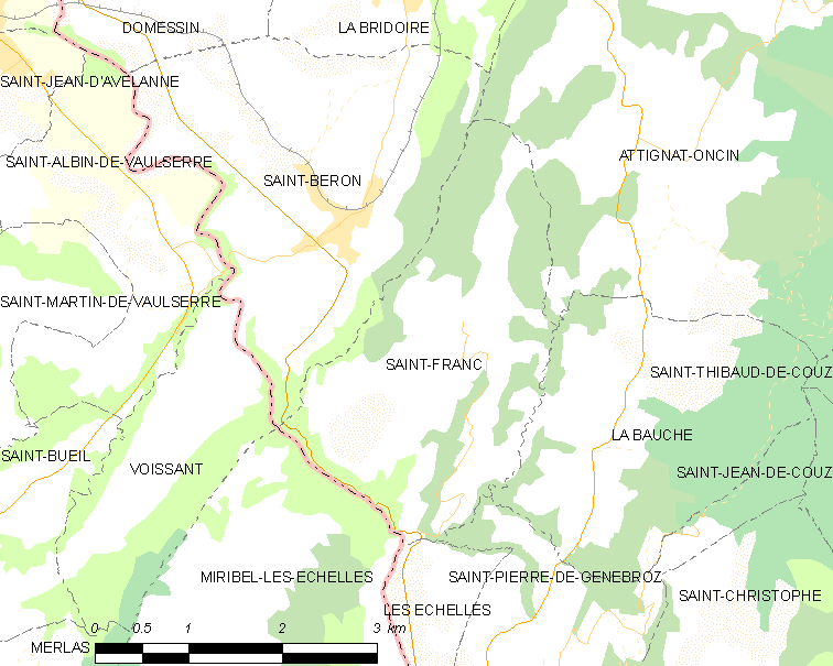 Map of French municipality